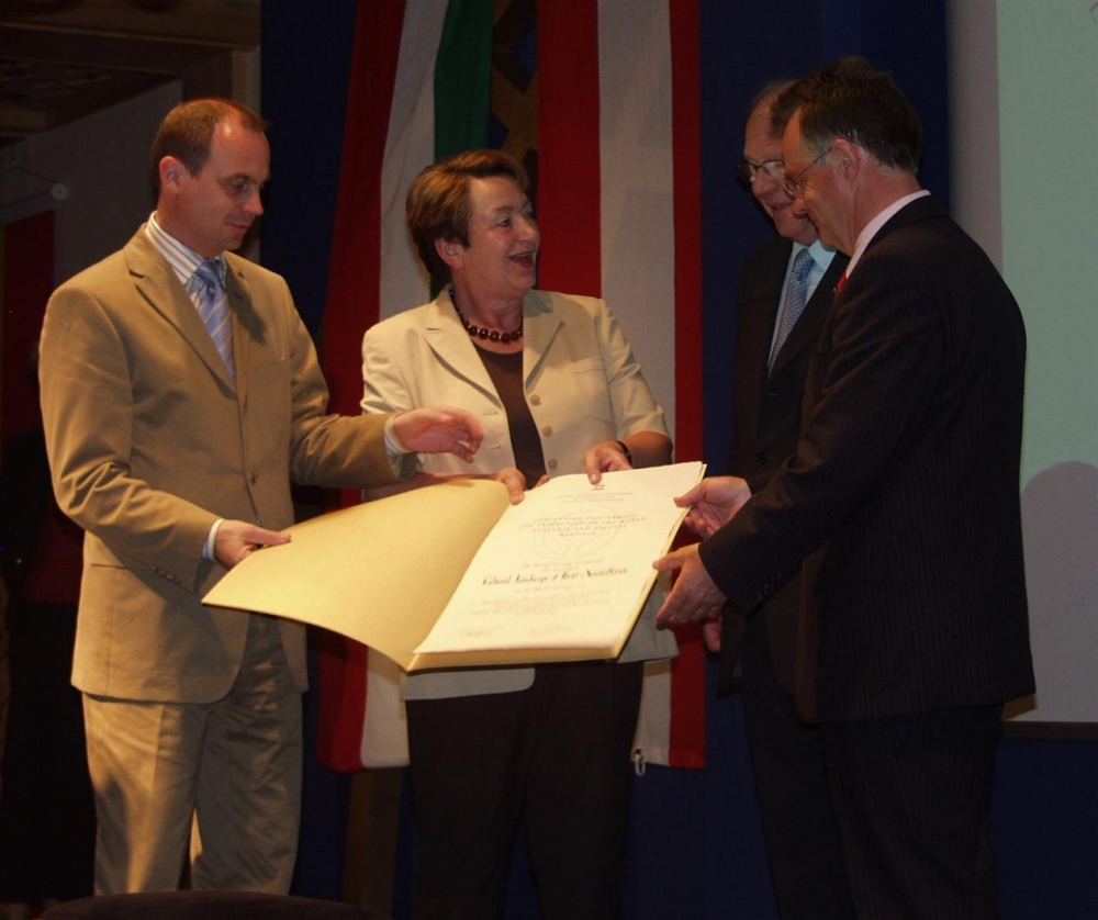 World Heritage Diplom - Fertö/Neusiedler-See